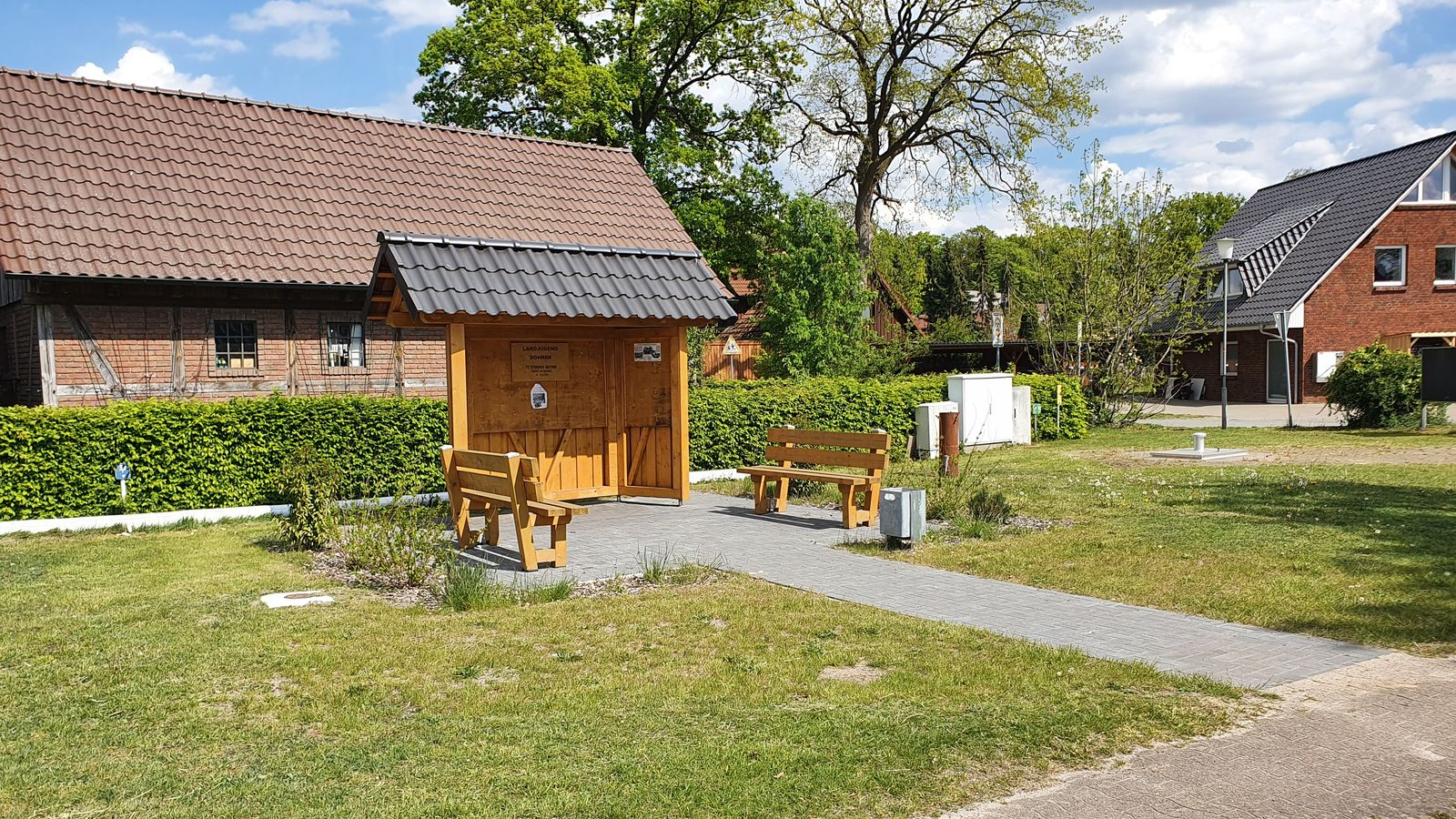 picnic area in Dohren